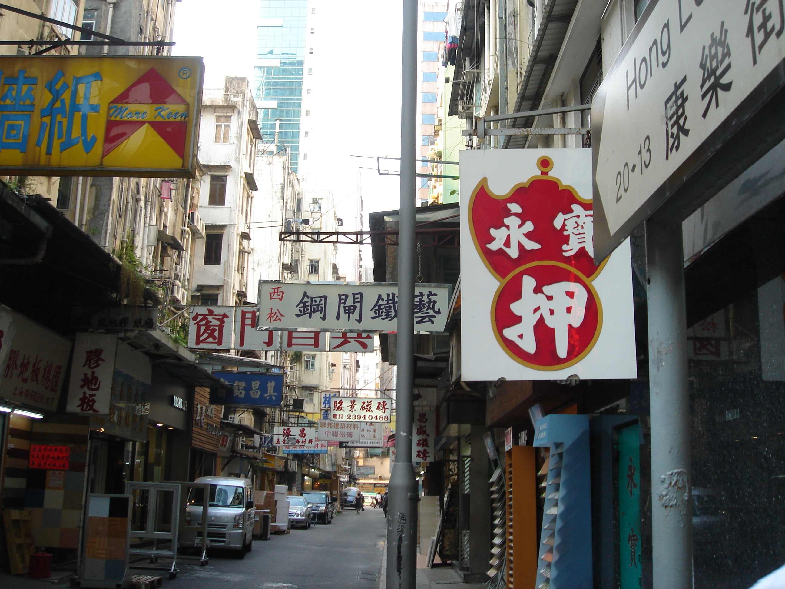 Hong Lok Street, Mong Kok, Kowloon, Hong Kong 中文（香港）: 香港九龍旺角康樂街